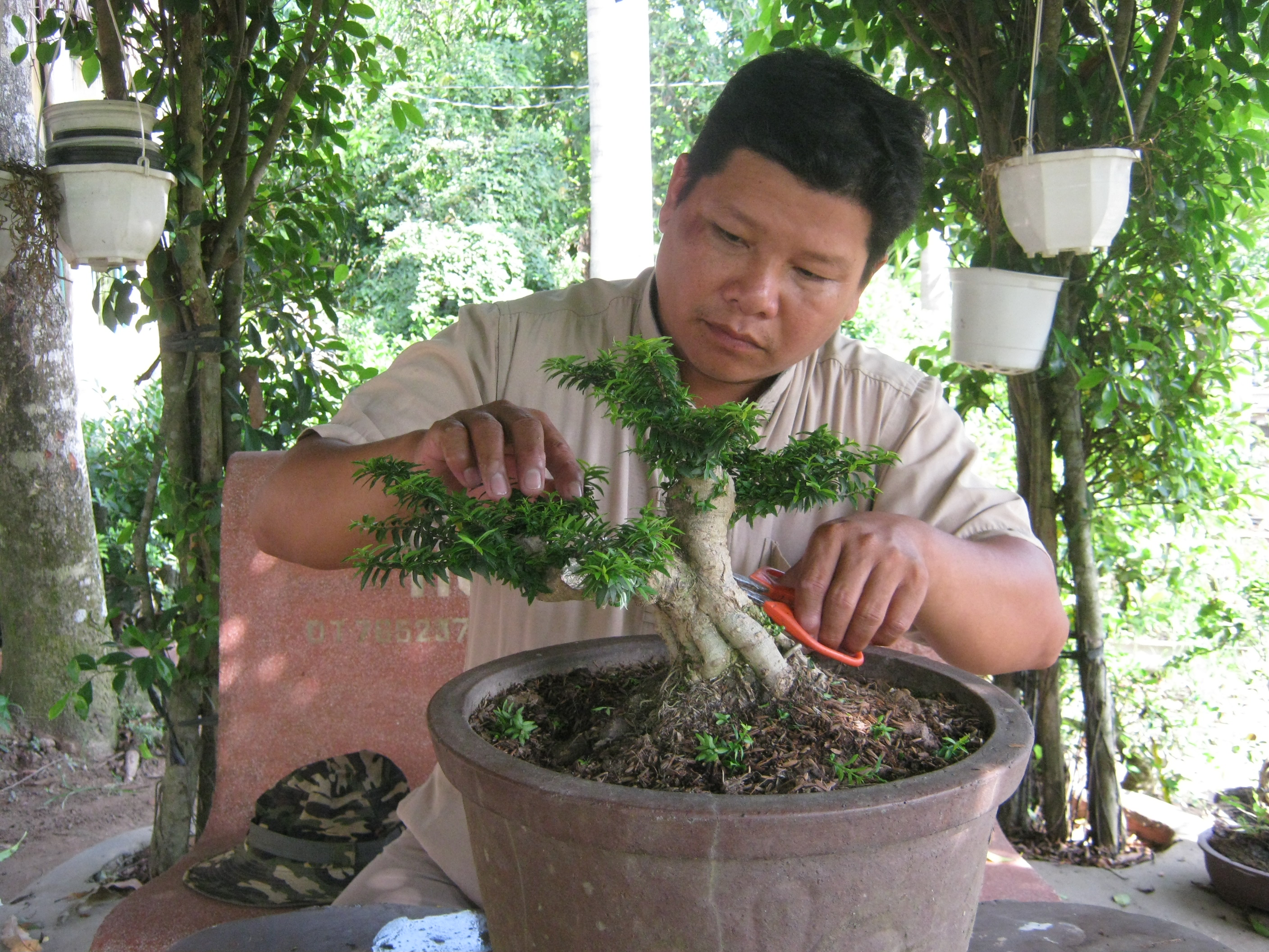 MR Nguyễn Phước Lộc